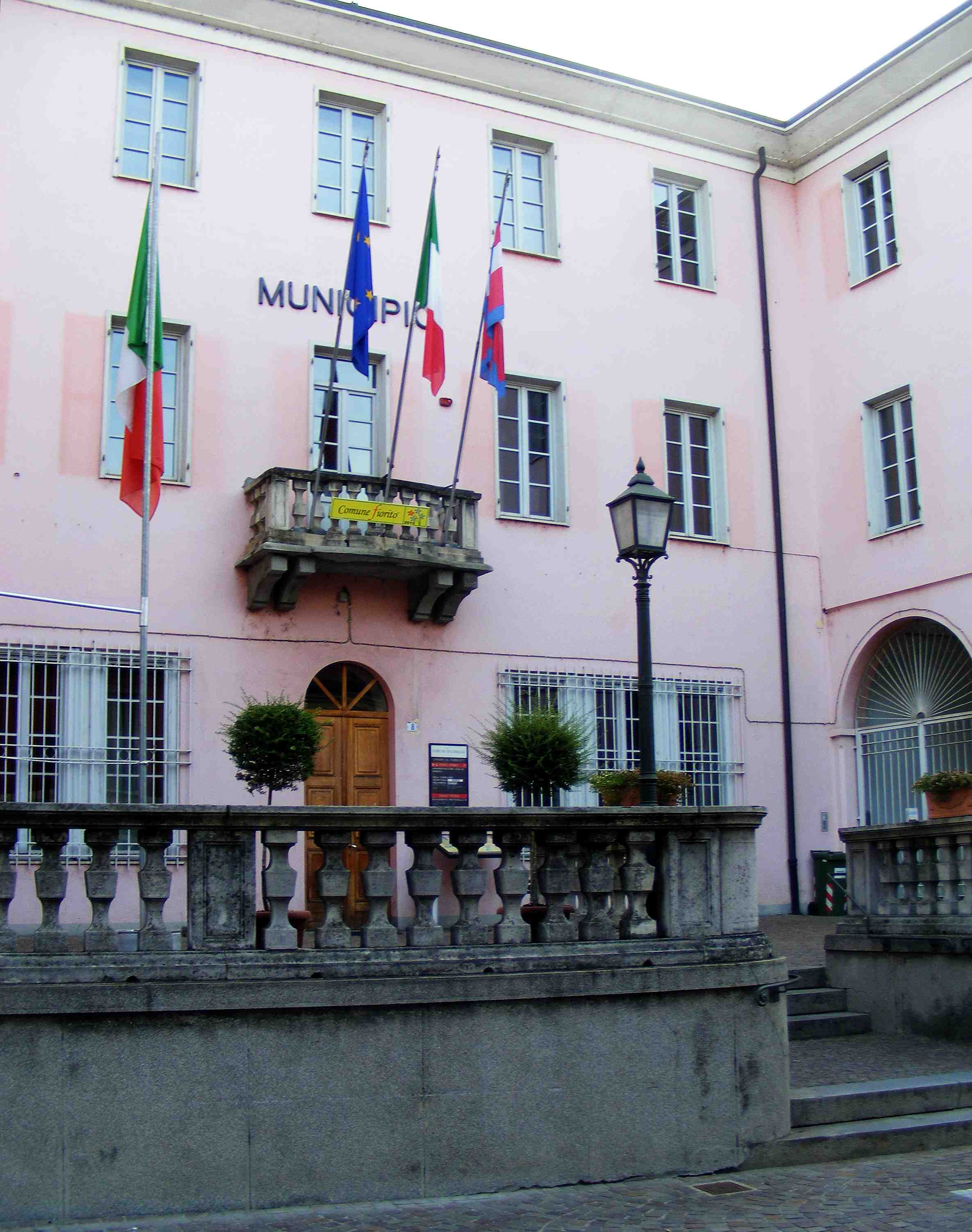 Cavaglià (BI Italy): town hall